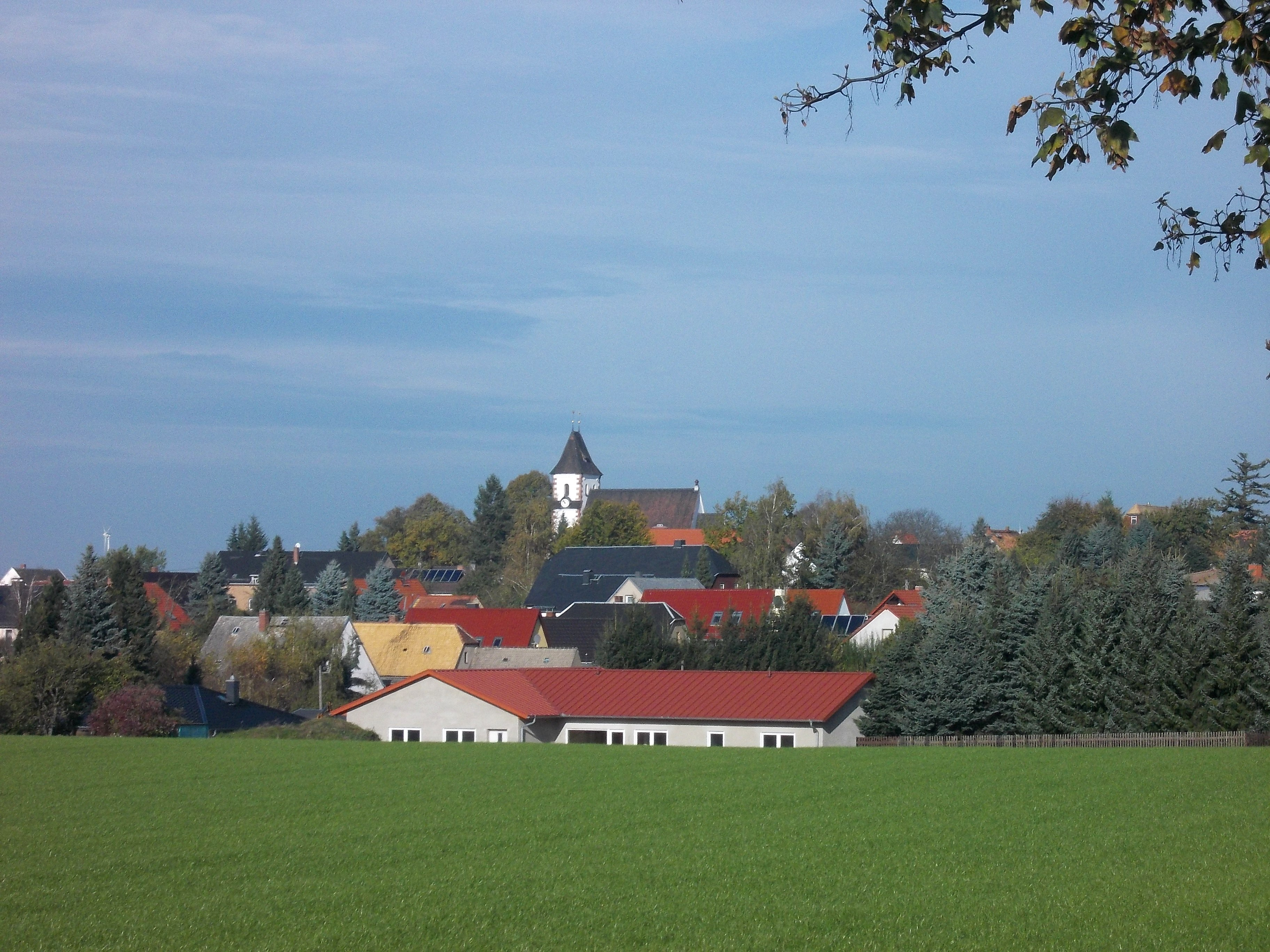 Grossweitzschen (Mittelsachsen district, Saxony) from the south-east